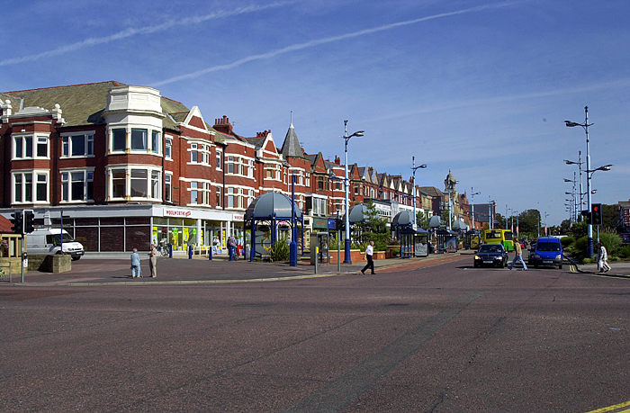 Lytham St Annes photograph taken in 2006 by Simon Yarwood